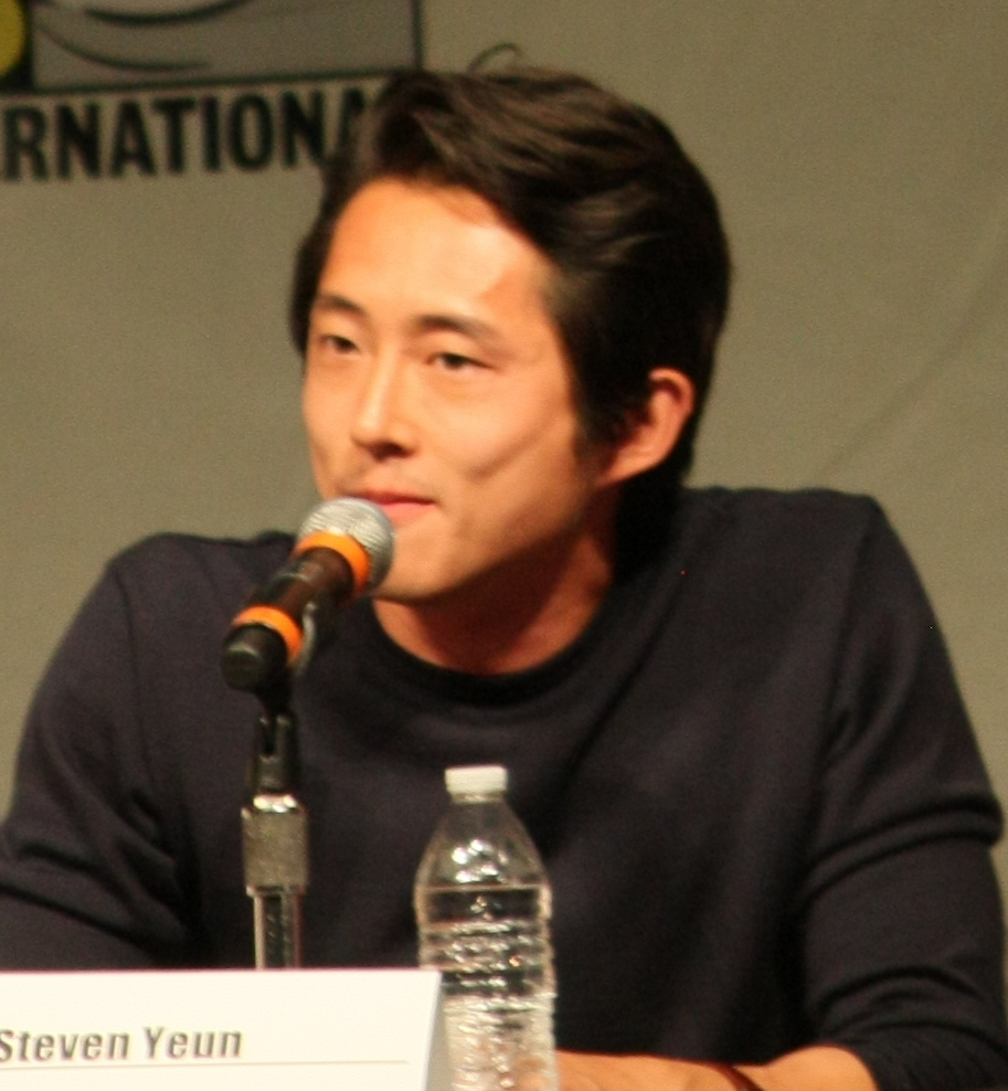 Steven Yeun at the 2012 Comic-Con in San Diego.